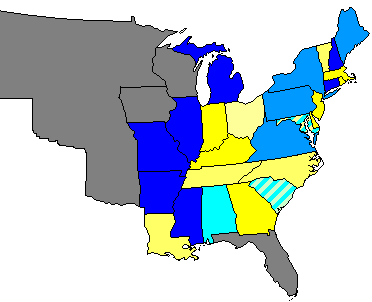 Summary of party control of U.S. house seats in the 25th United States Congress following election. Stripes indicate a tie between two or more parties. Legend: 80.1-100% Democratic seat majority 60.1-80% Democratic seat majority 60% or less Democratic seat plurality 60% or less Whig seat plurality 60.1-80% Whig seat majority 80.1-100% Whig seat majority 60% or less Nullifier seat plurality